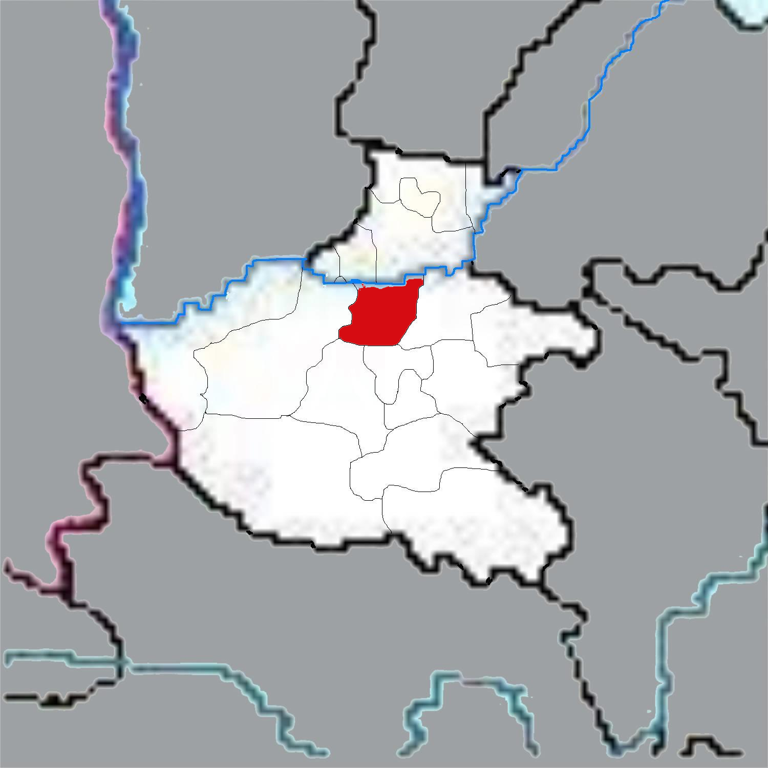 Maps of Henan Province of China